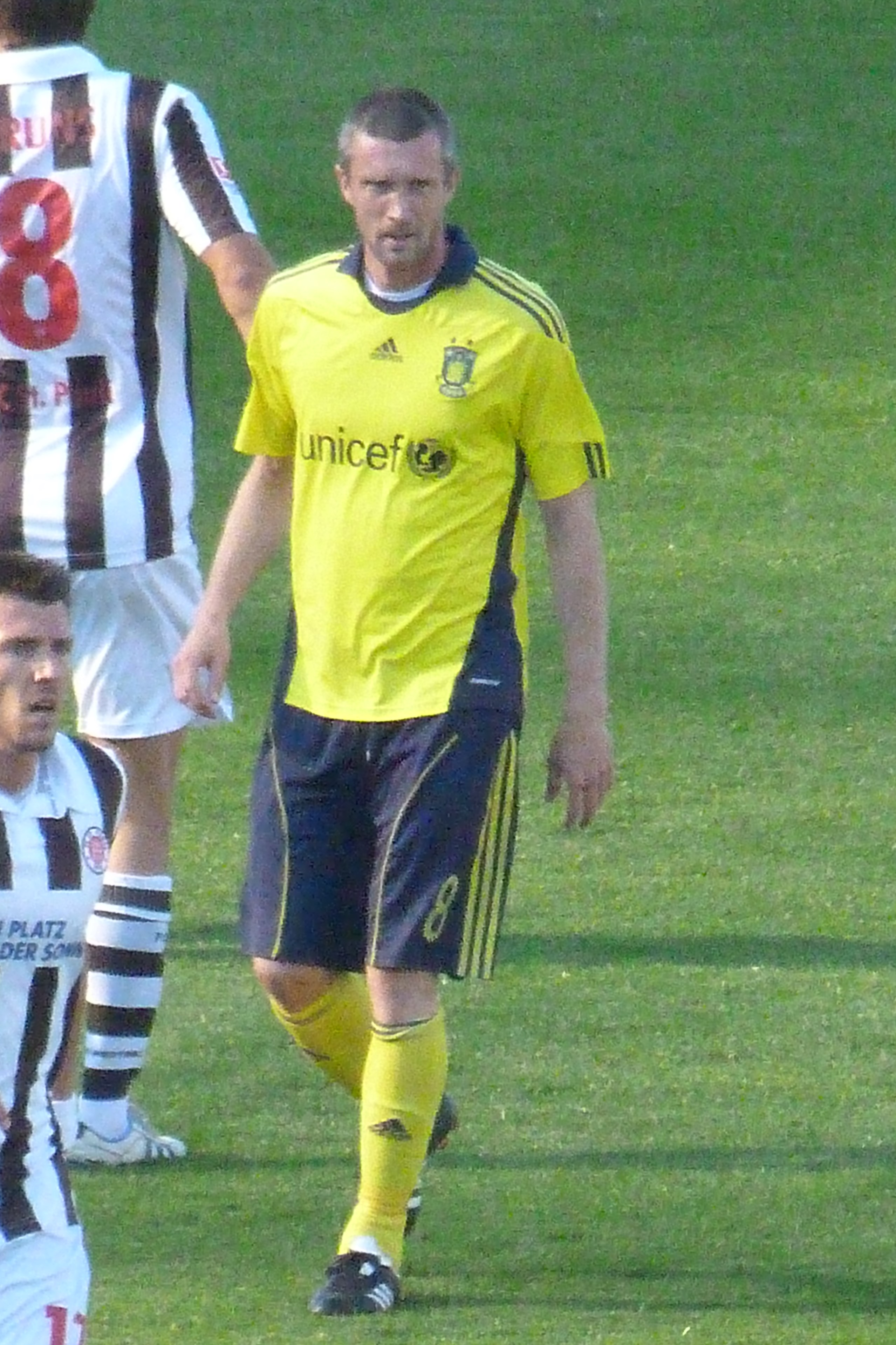 Mikael Nilsson as Player from Bröndby IF